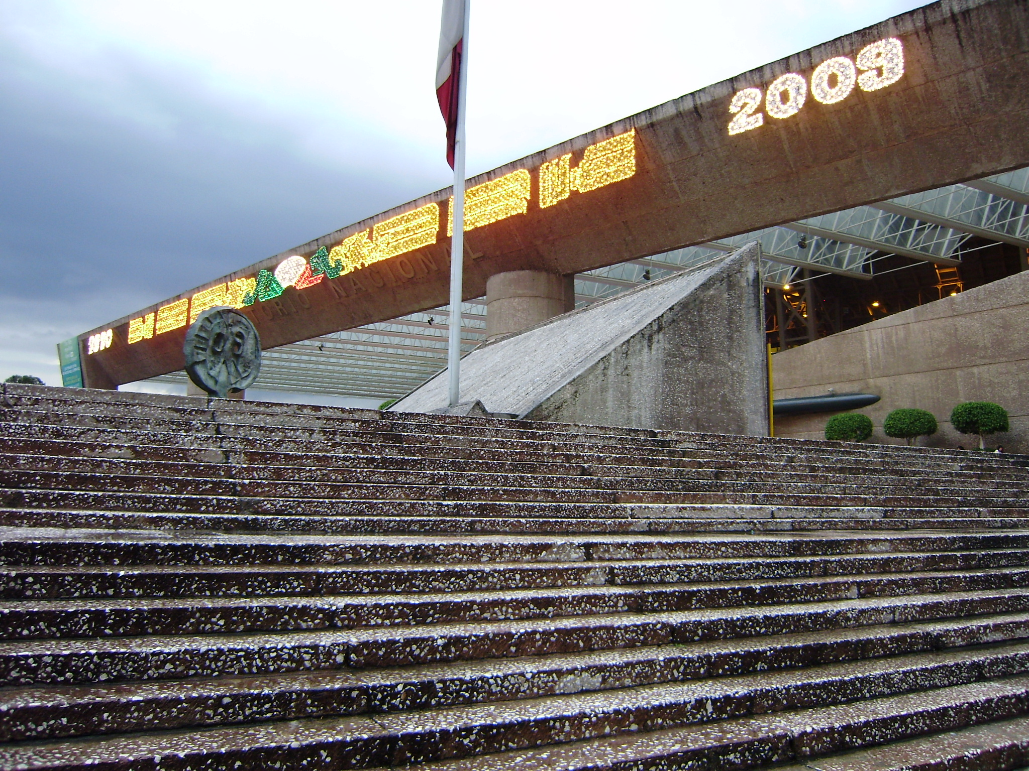 West corner of the Auditorio Nacional of Mexico City